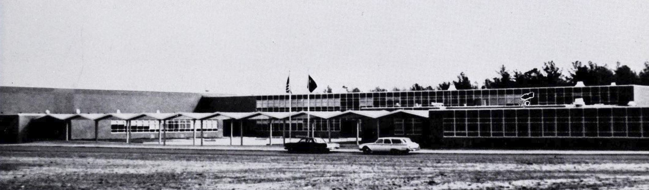 Meadowbrook 1964